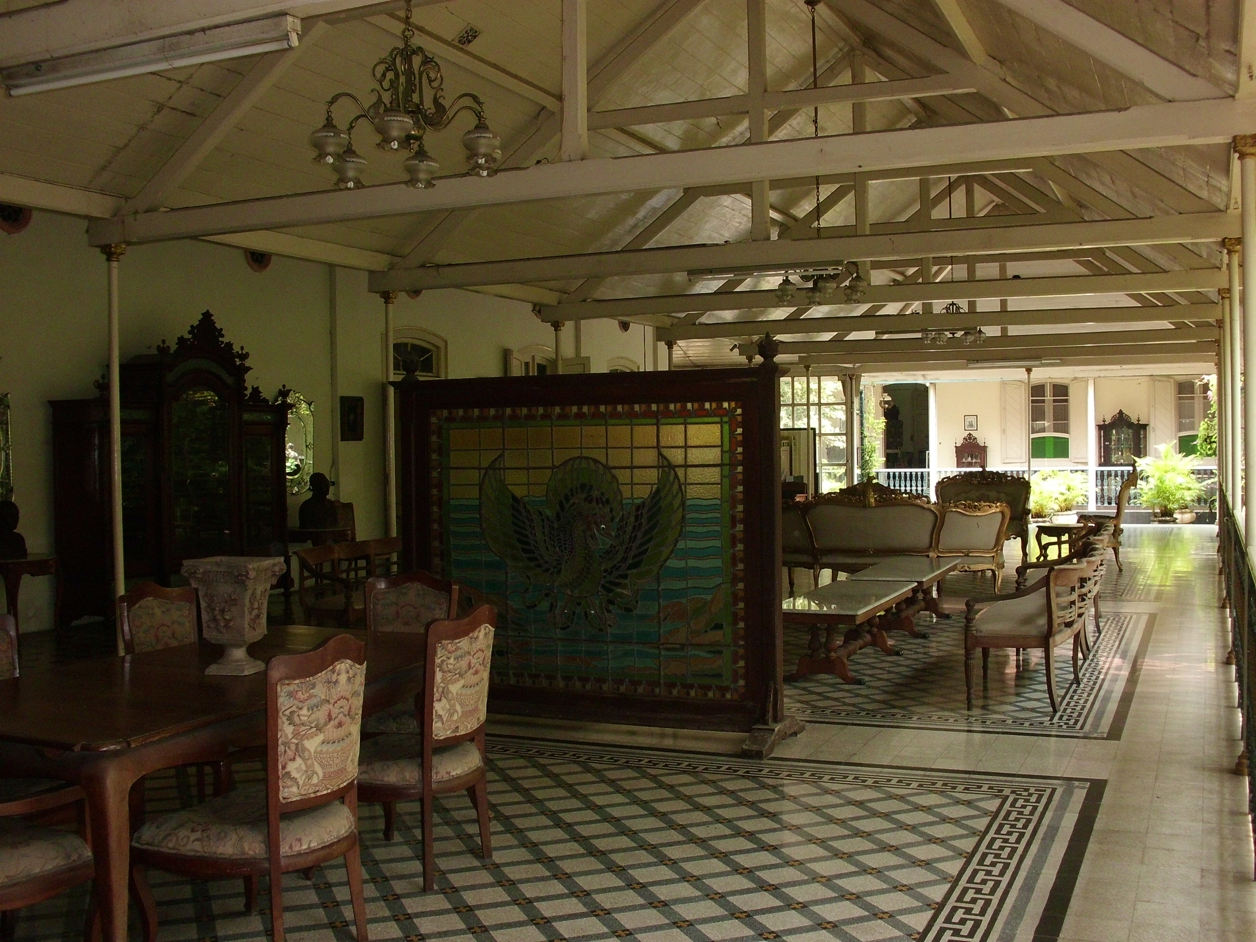 Mangkunegara family room is in the middle between Pendhapa Ageng and the main house. Right in front of the Bangsal Gusti Nurul, or where the royal family held an internal meeting. The Mangkunegara family room is decorated with stained glass in the shape of an eagle, complete with Mangkuengara IV era decorations. The decoration is a gift from the King of the Netherlands at the same time, a symbol of the social status of the Mangkunegara family which is equivalent to Europeans.